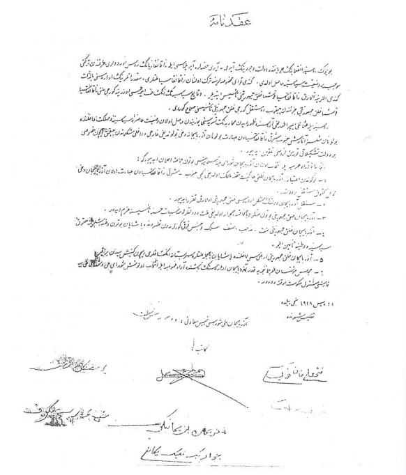 Declaration of Independence of Azerbaijan. Scan of the document from State archive of Azerbaijan Republic.